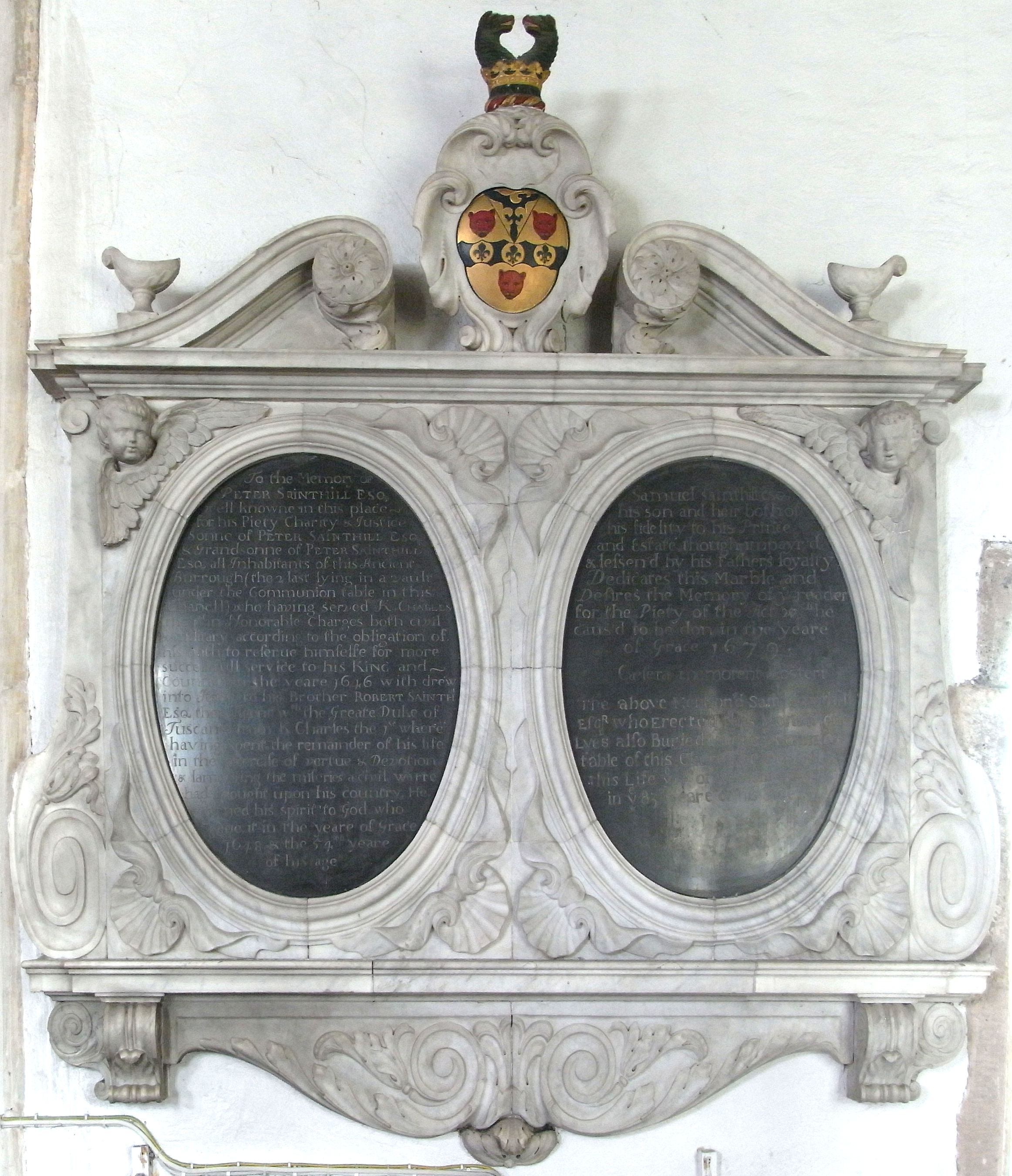 Mural monument to Peter Sainthill (1593-1648), north wall of chancel, Bradninch Church, Devon, England.